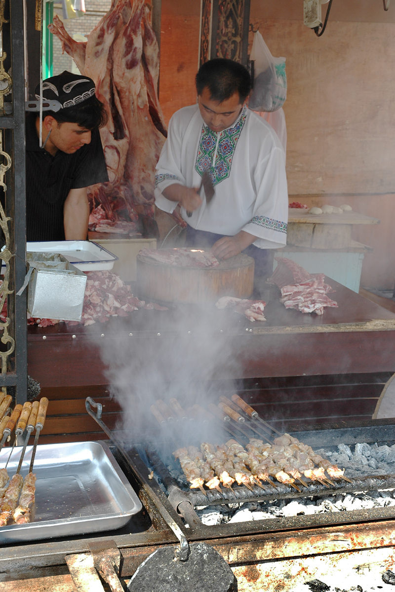 Mutton BBQ in the street of Urumqi, Xinjiang, China.